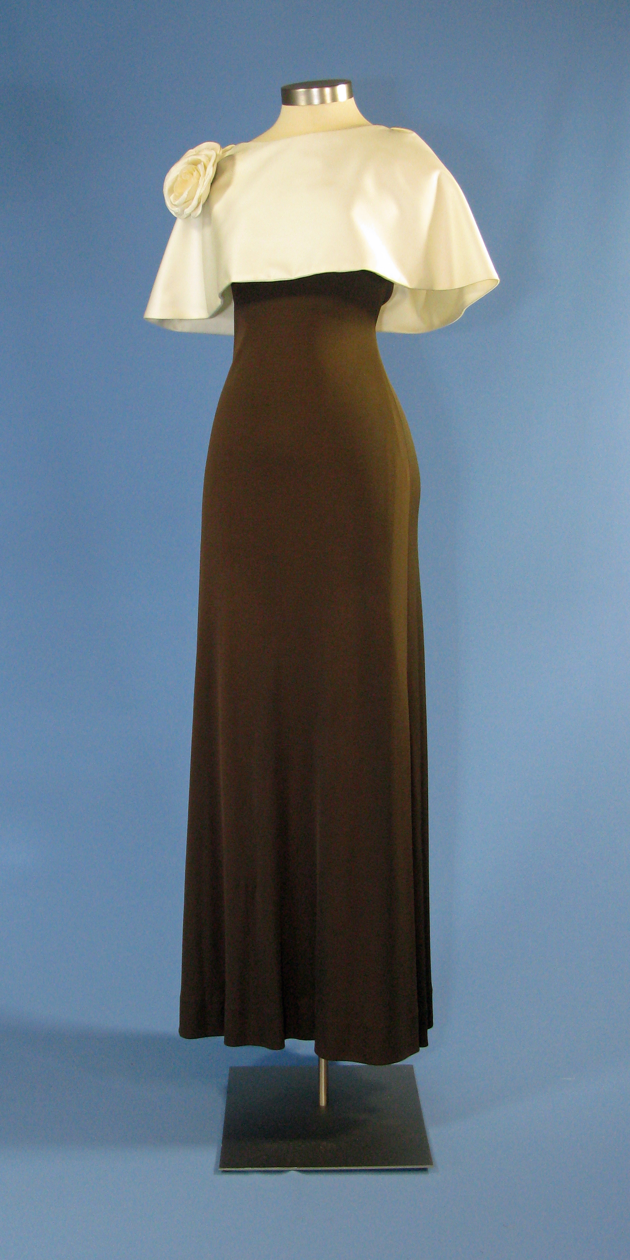 A formal gown with a cape designed by Luis Estevez for First Lady Betty Ford. The dark brown, jersey gown features a white cape and a train down the back. In addition, it also has a white flower on the shoulder, no sleeves, and a zipper up the back.